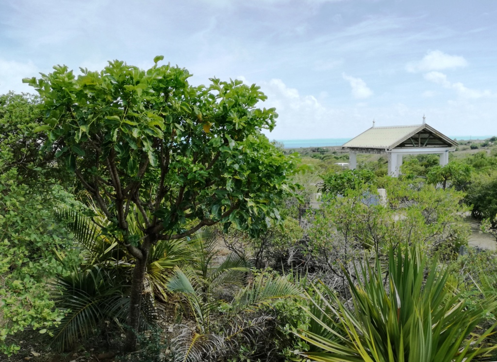 Francois Leguat Polyscias rodriguesiana